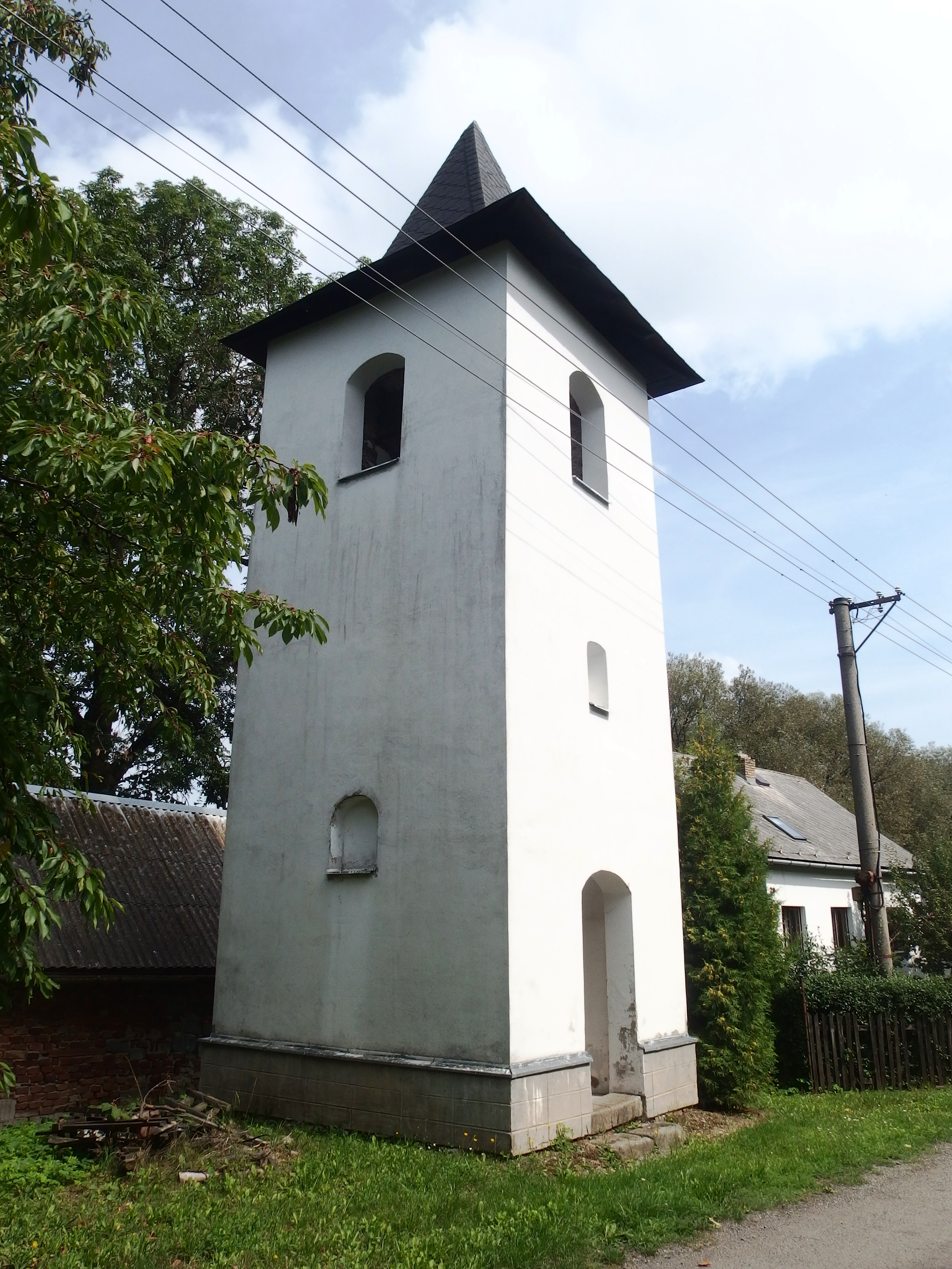 Maletín, Šumperk District, Czechia, part Javoří.